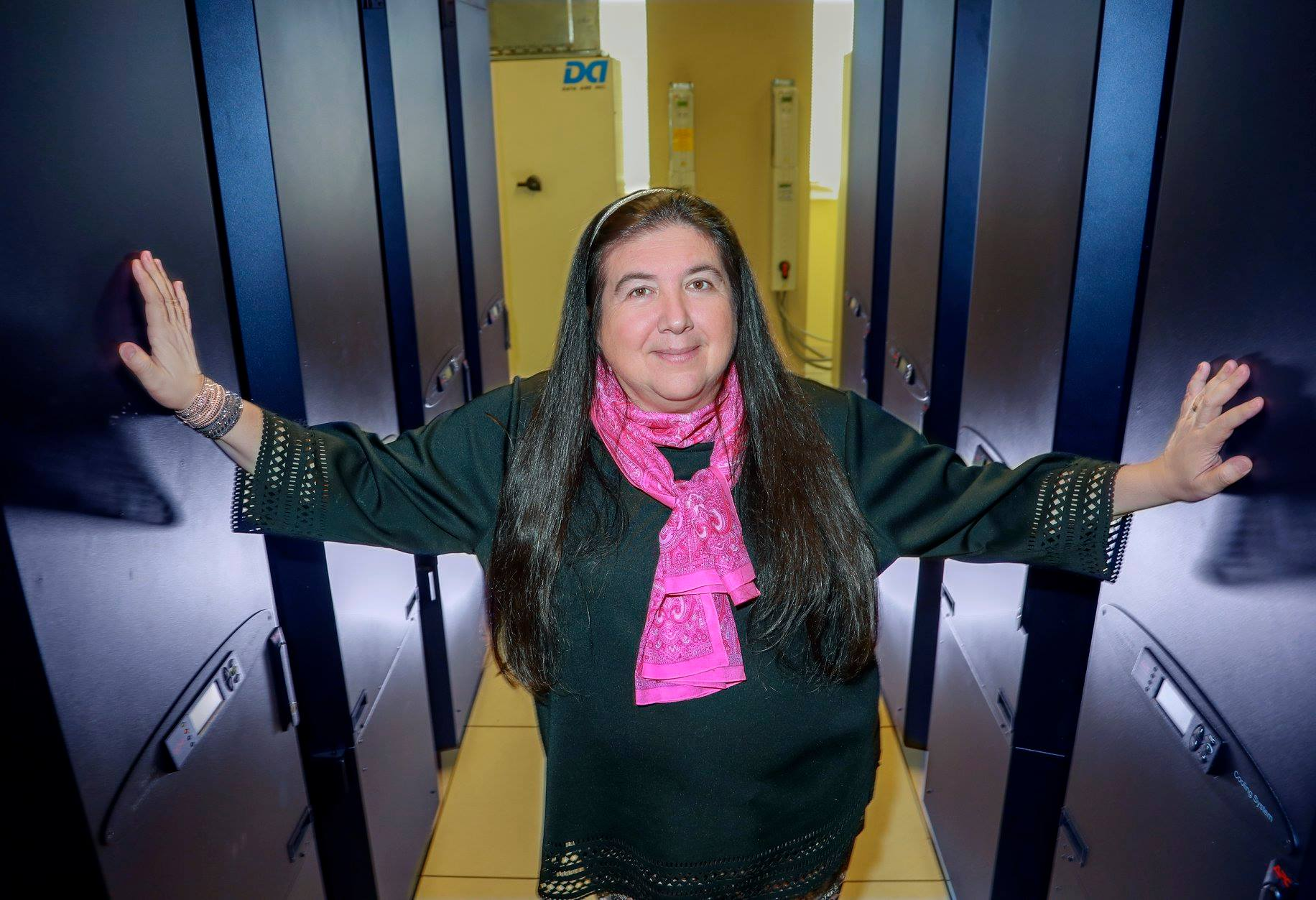 Dr. Carolina Cruz-Neira at University of Arkansas at Little Rock